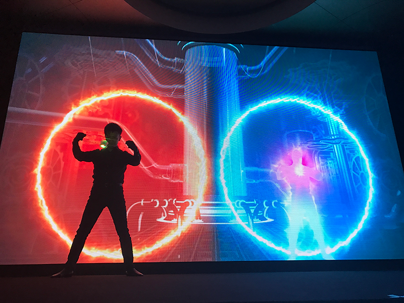 BLACK Illuminate the World